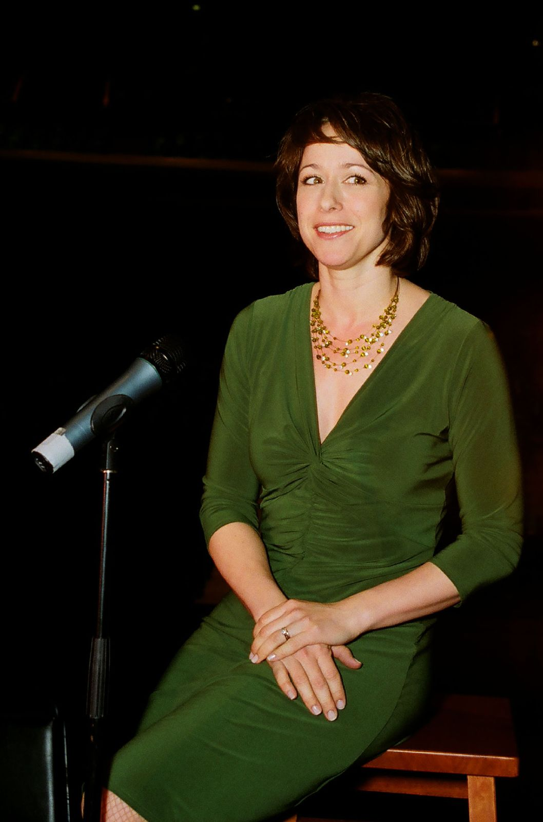 Photo by Andy Hanson Paige Davis, best known for “Trading Spaces” TV show, talks about her portrayal of Charity Hope Valentine in “Sweet Charity” July 24-August 5 at the Music Hall.